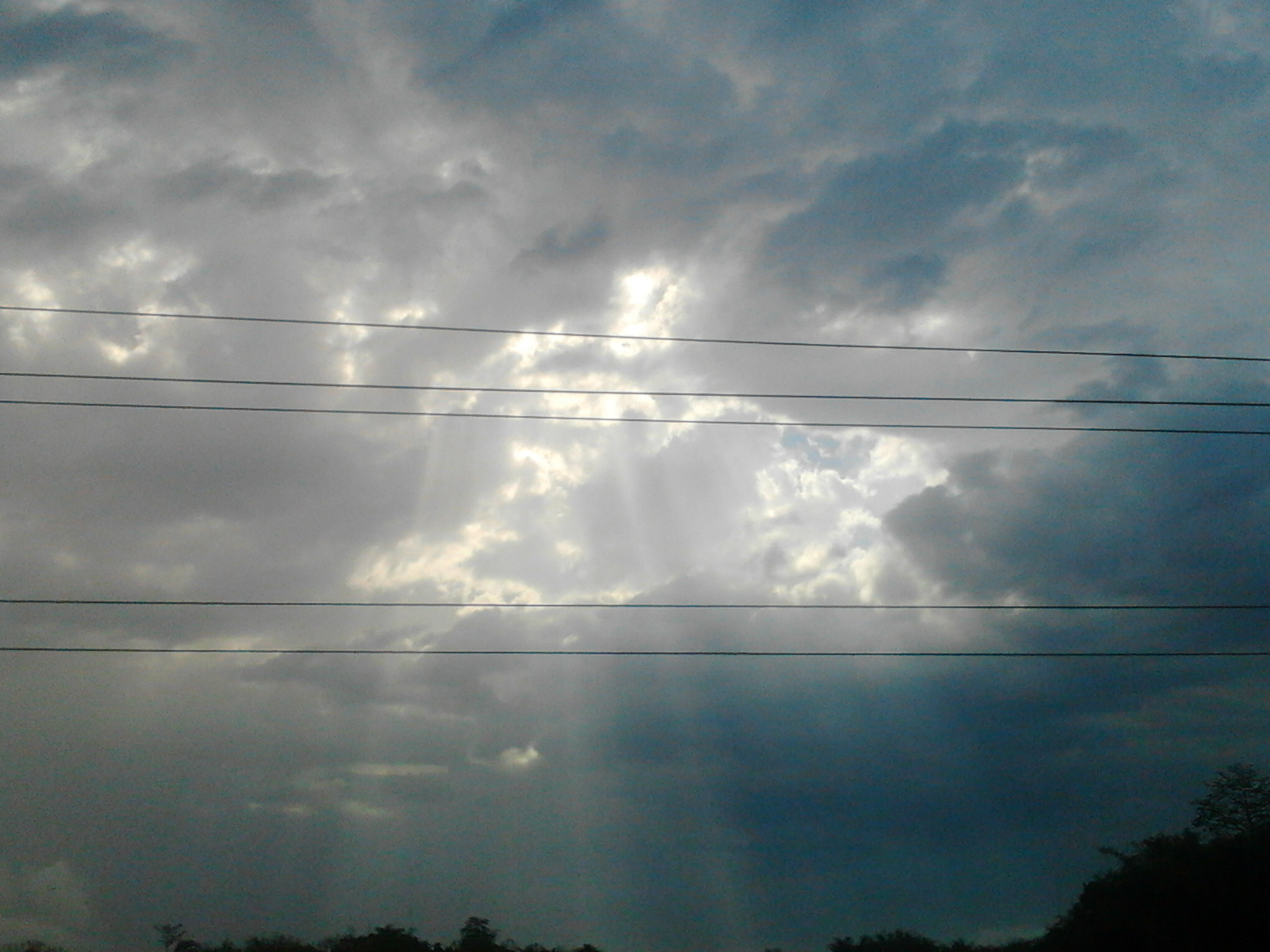 It is the sun rise in one sweet spring morning in Harisinga